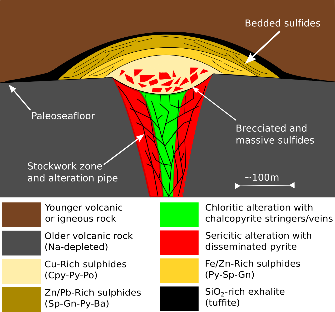 This is a cross-section of a typical volcanogenic massive sulfide (VMS) ore deposit. An exhalite or tuffite is composed of sediment deposited out of seawater influenced by vented hydrothermal fluids. An exhalite horizon on the paleoseafloor can usually be followed along strike to its source vent, which is useful for exploration. The underlying older volcanic rocks are not the direct source of mineralization. cpy=chalcopyrite py=pyrite po=pyrrhotite sp=sphalerite gn=galena ba=barite For more information, see Hannington, M.D. (2014). "Volcanogenic massive sulfide deposits". Treatise on Geochemistry (Second Edition) 13: 463-488. Fixed format of previous work